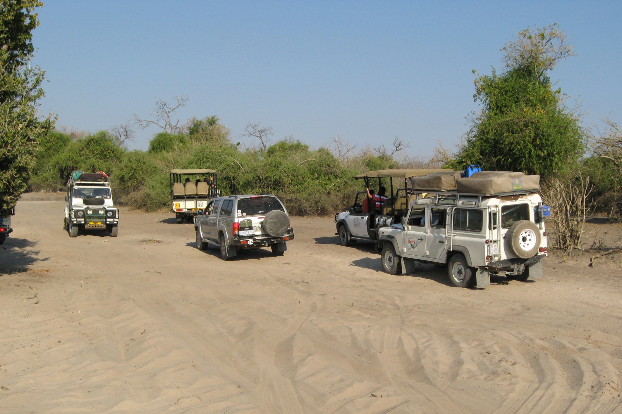 Tourists swarming to see young leopard at Chobe National Park, Botswana